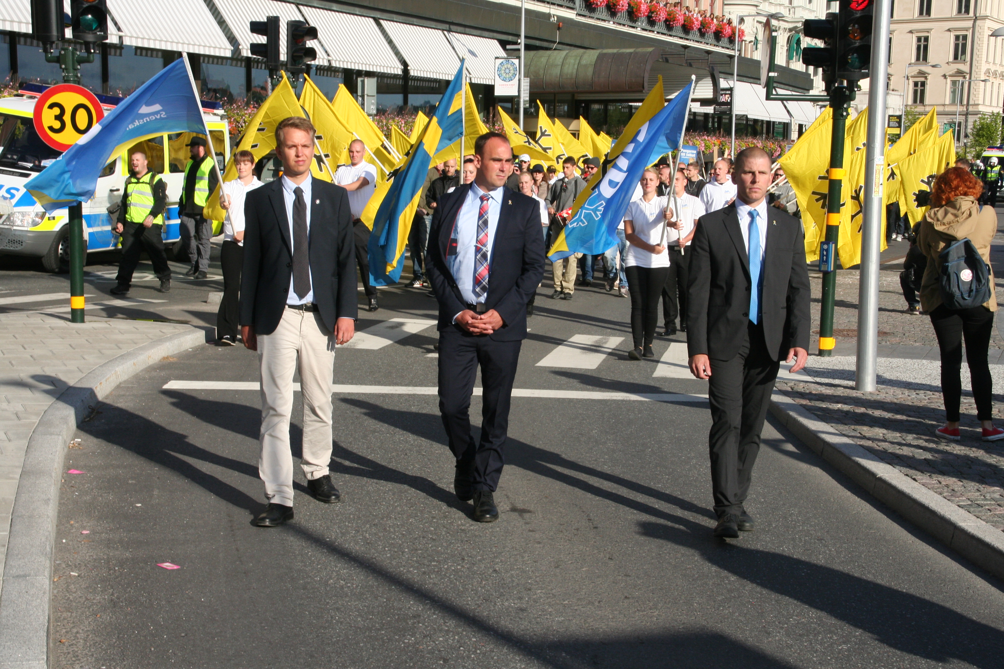 The Party of the Swedes demonstrates in Stockholm on 30 August 2017.